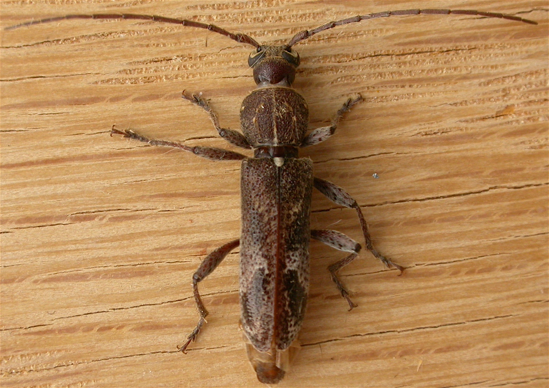 Phacodes personatus Erichson, 1842, to MV light, Aranda, ACT, 5/6 December 2008